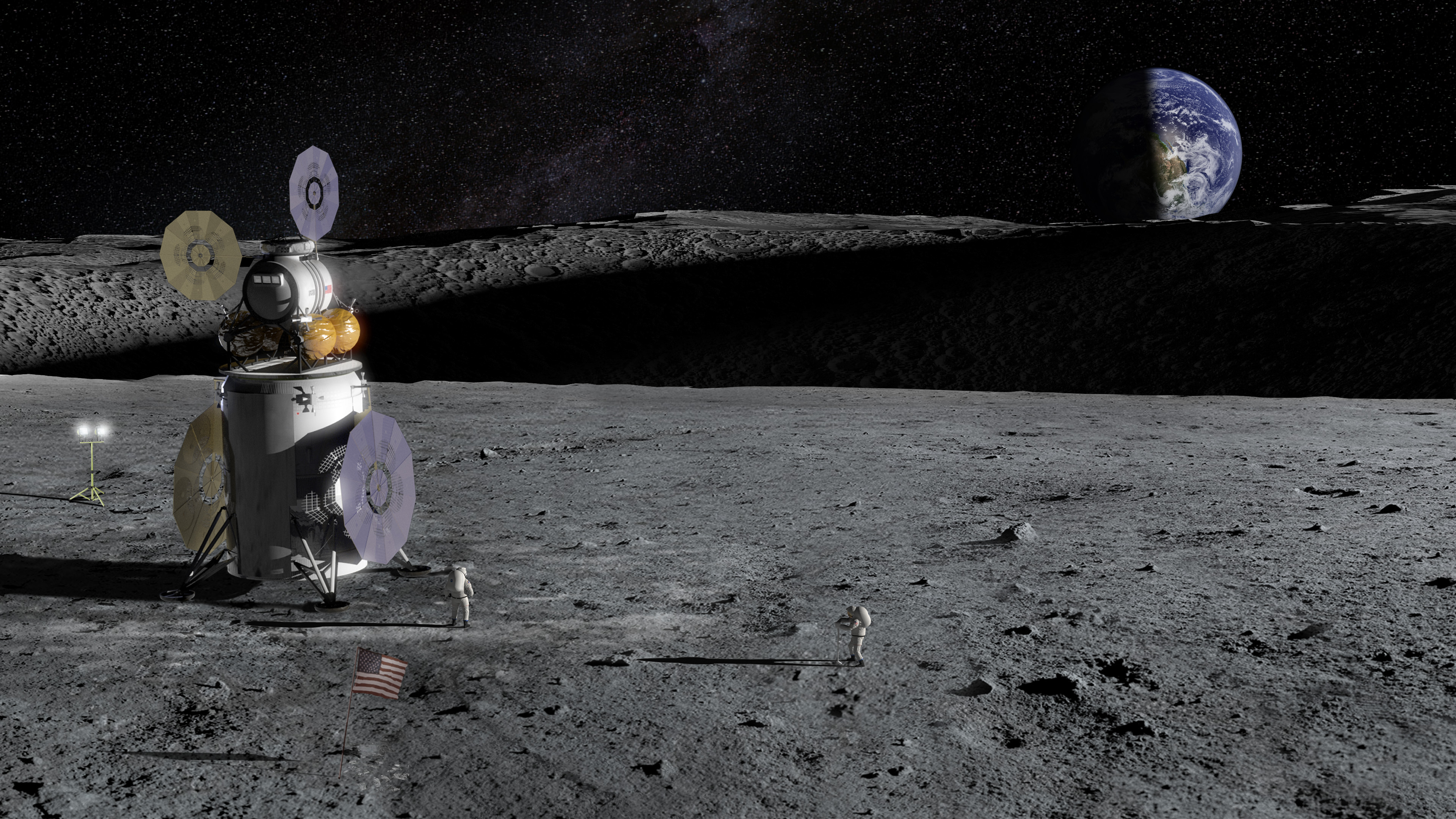 Artemis program south pole crater